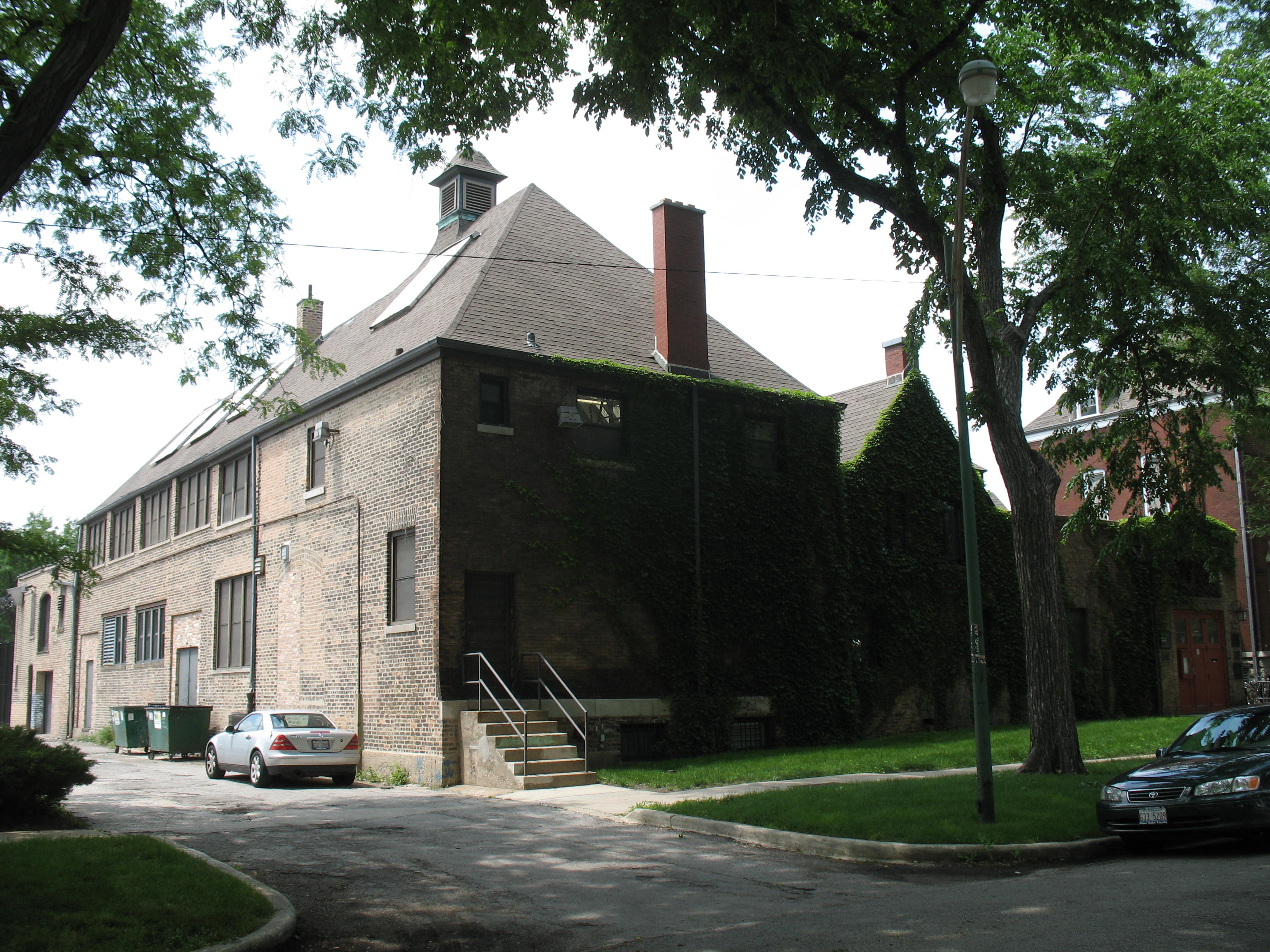 Lorado Taft Midway Studio, 6016 S Ingleside Avenue